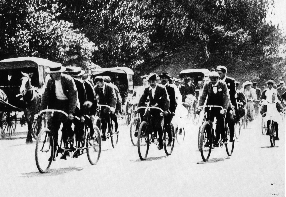 Cycling in Melbourne on a Sunday in 1895 . Photo believed to be in the Public Domain